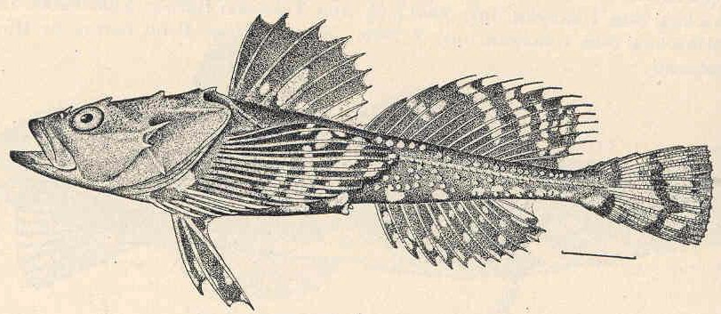 Megalocottus platycephalus Subject: Megalocottus Tag: Fish